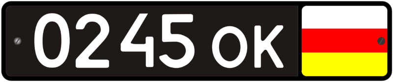 License plate of the army and the ministry of defense of South Ossetia